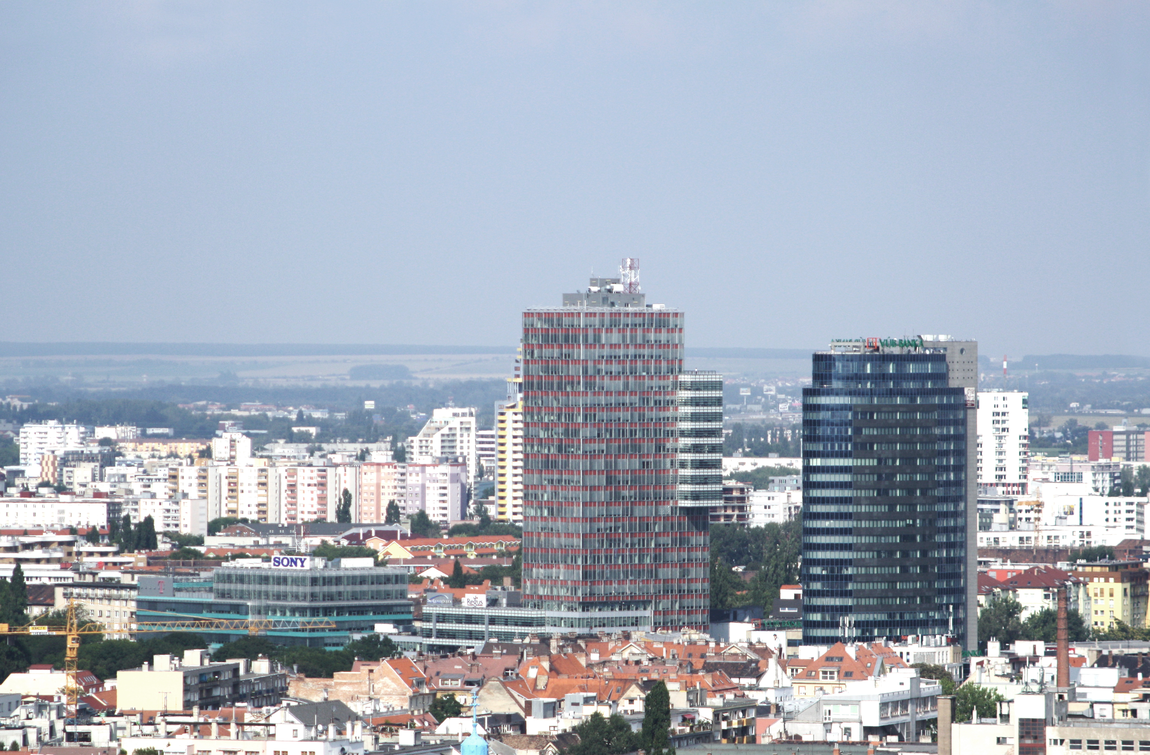 VÚB headquarters and City Business Center buildings in Bratislava, view from Nový most viewpoint.